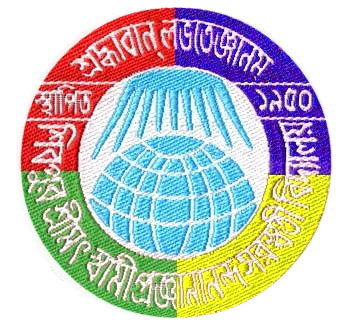 Official Logo of Sibpur S.S.P.S. Vidyalaya